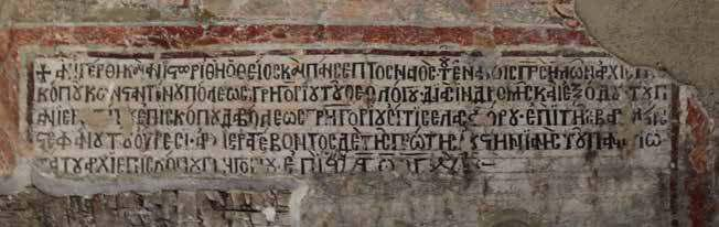 Church of the Theotokos of Zaum Inscription